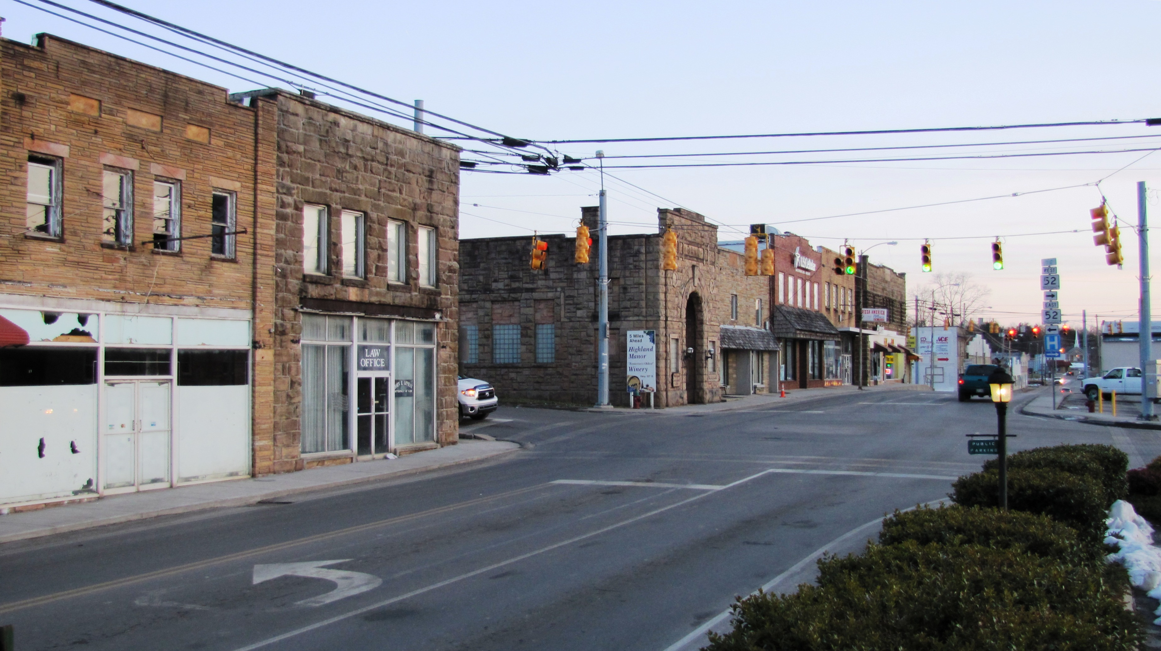 The junction of TN-52 and Main Street in Jamestown, Tennessee, USA.